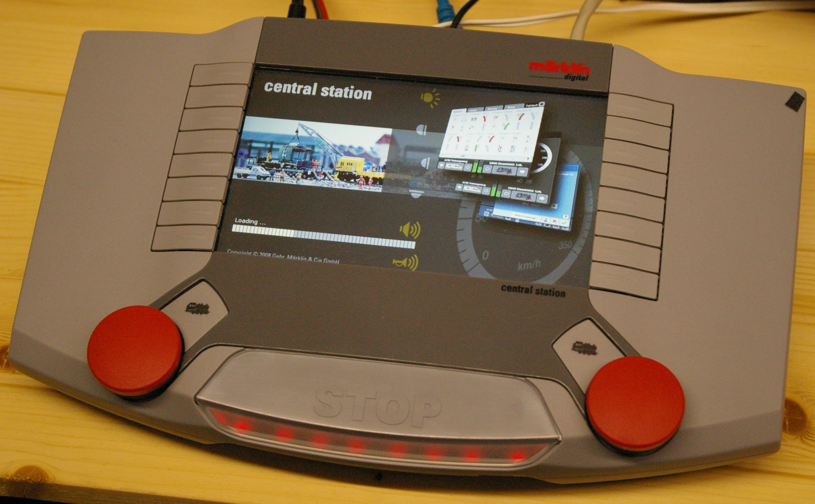 Maerklin Central Station 2